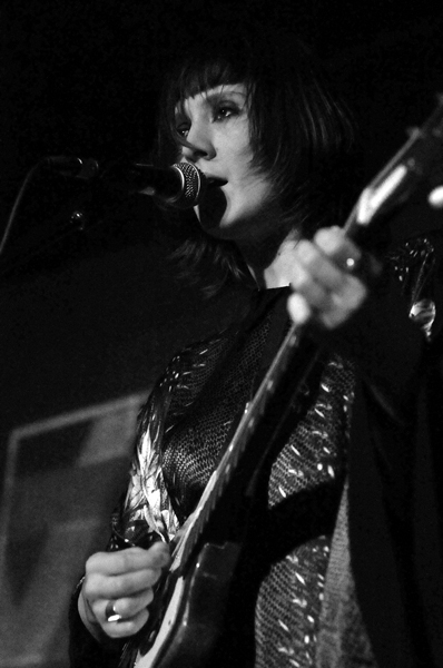 Cate Le Bon is a singer-songwriter from Penboyr, Wales and now based in Cardiff, Wales, who sings in both English and Welsh. Performing live at The Arch, Village Underground, London on 23rd April 2012.